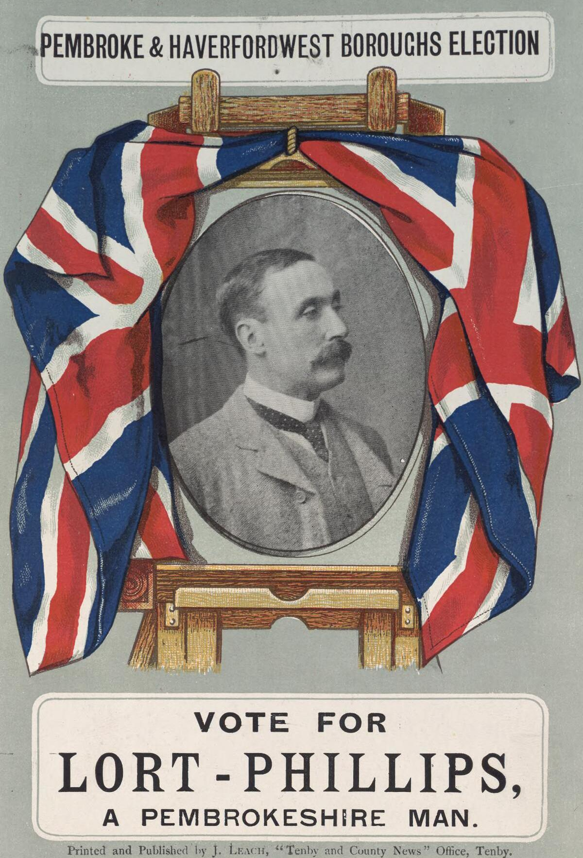 A portrait from the Welsh Portrait Collection at the National Library of Wales. Depicted person: George Lort Phillips – British politician